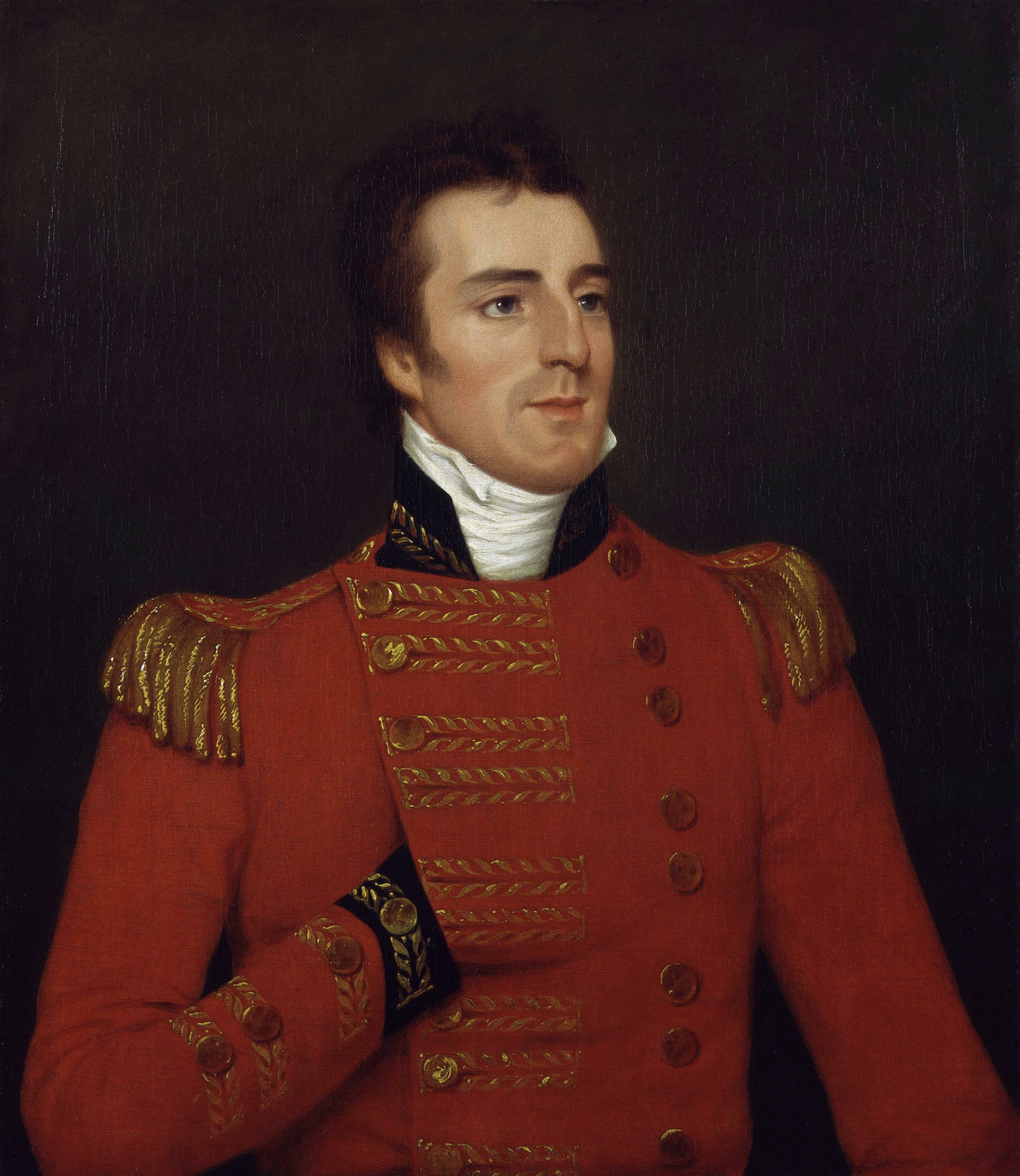 Portrait of Arthur Wellesley, 1st Duke of Wellington painted while he was serving in India. He is depicted in his Major-General's uniform.